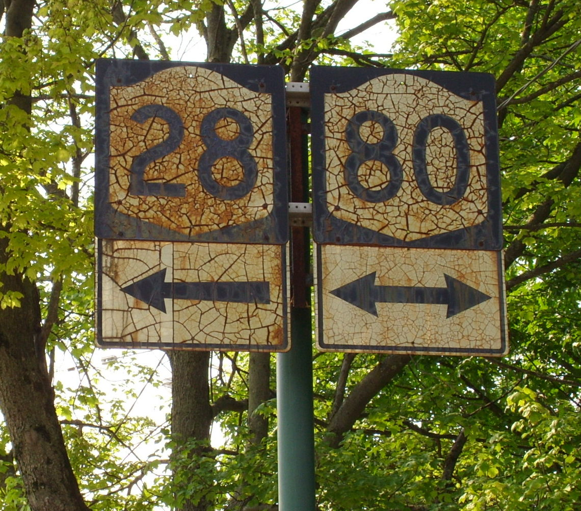 Cooperstown NY-old State Highway Markers